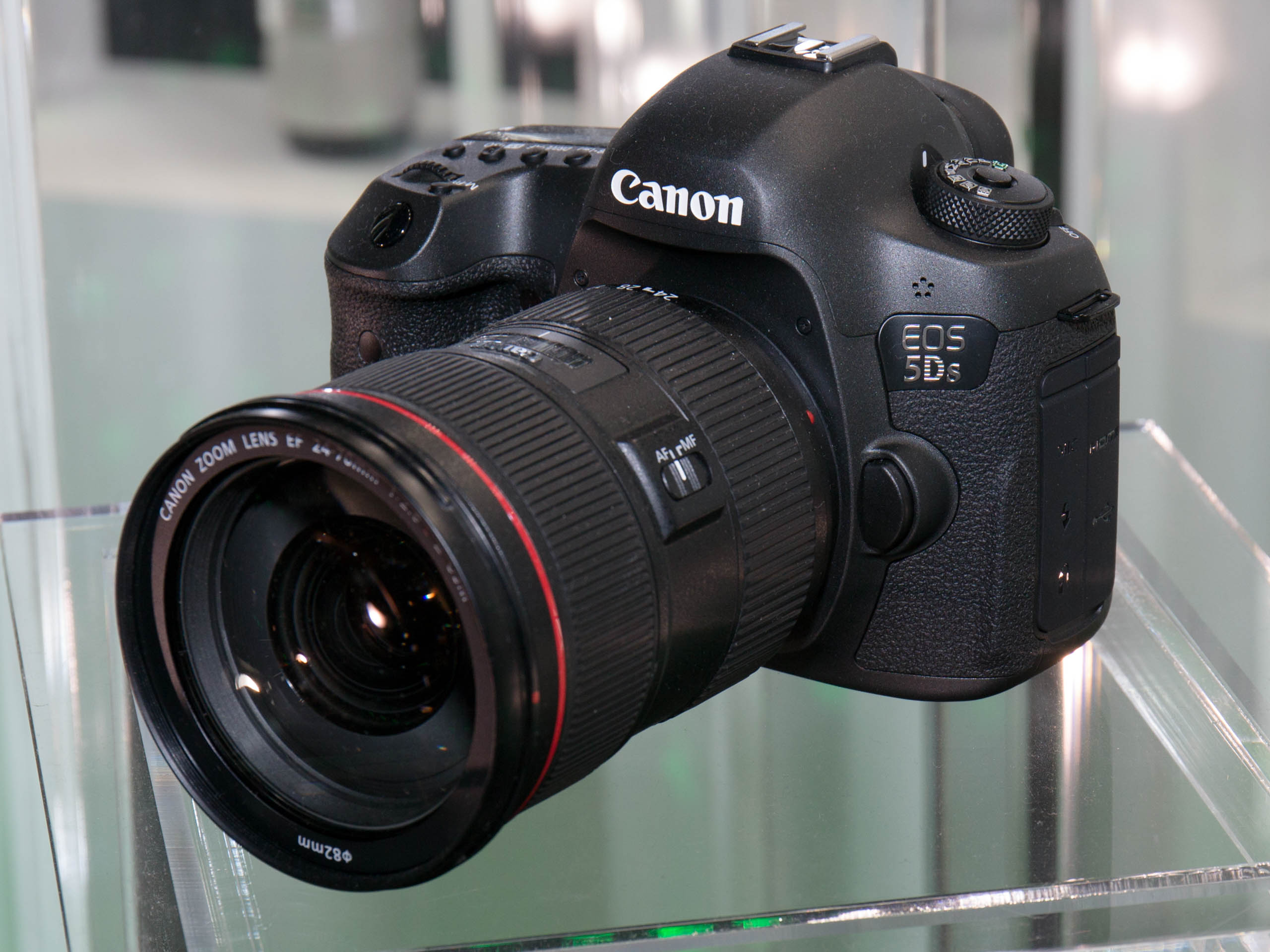 CP+ 2015: 2015 Canon EOS 5Ds